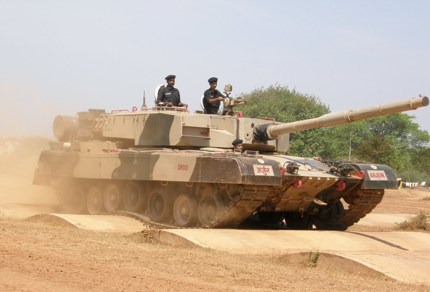 An Arjun MBT being test driven on the bump track at the Central Vehicles Research and Development Establishment (CVRDE), at Avadi, Chennai